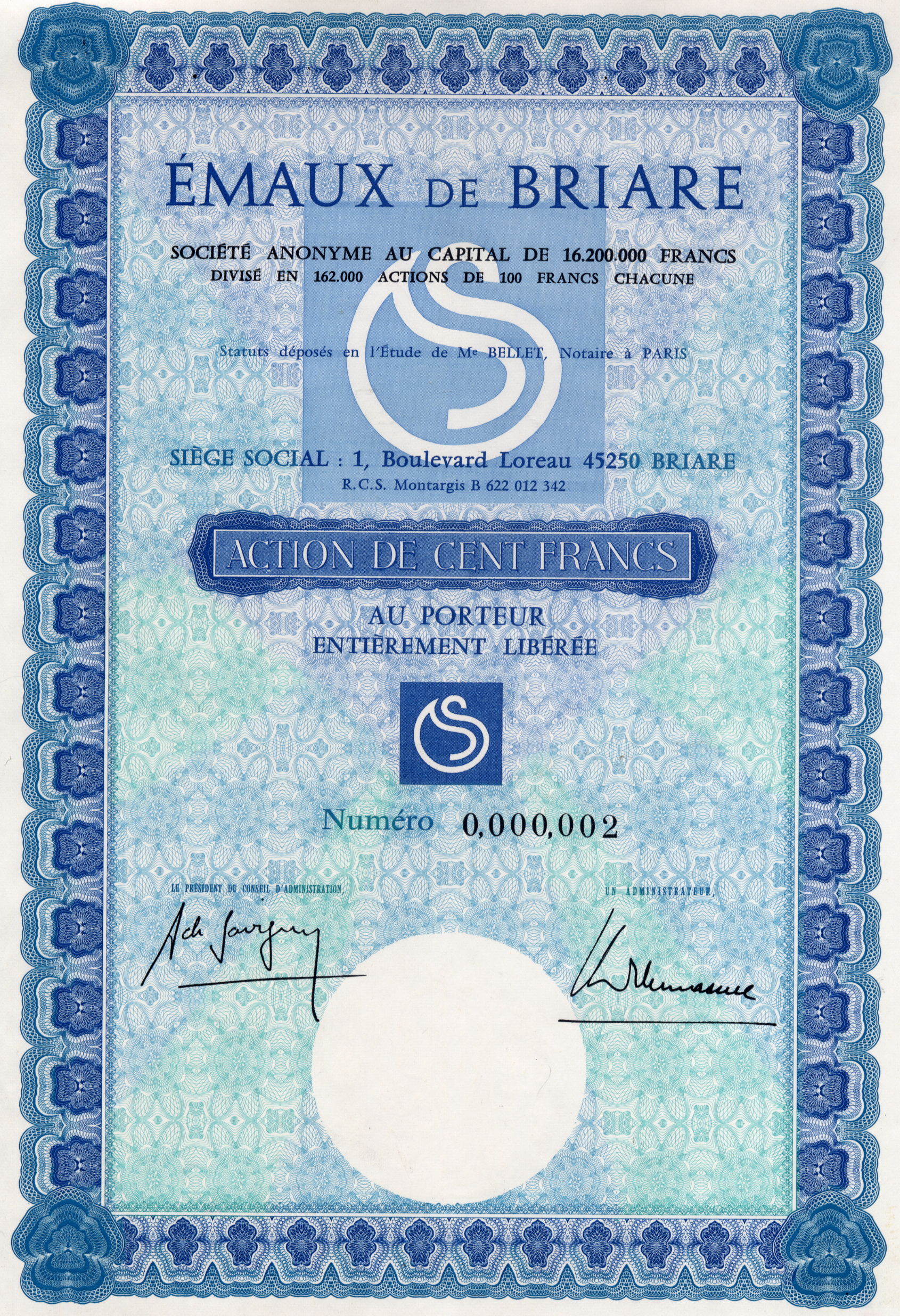 Share of the company émaux de Briare. Listed on the Paris stock exchange